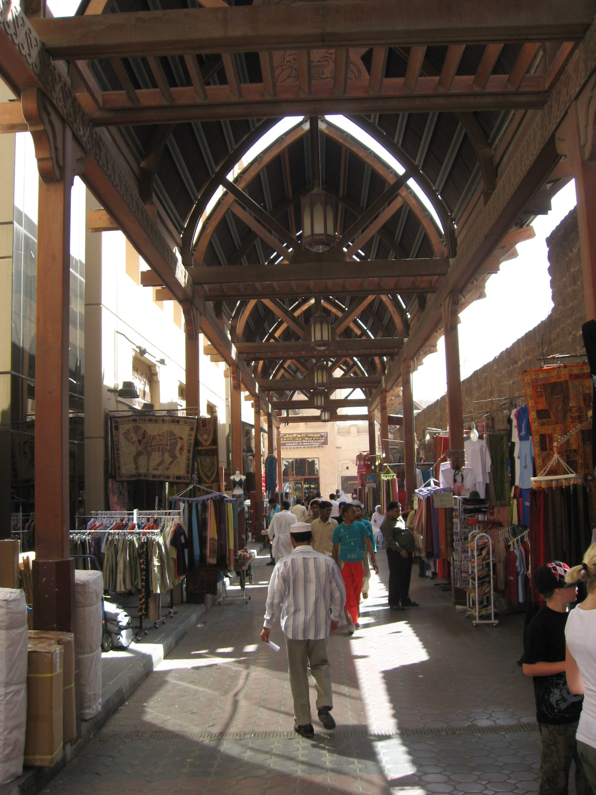 Soukh at the Dubai Creek close to the Grand Mosque